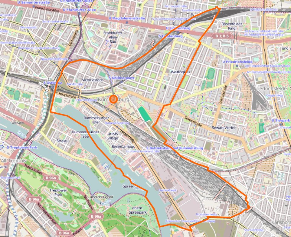 Berlin-Rummelsburg and vicinity